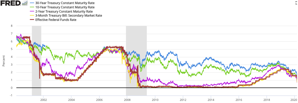 Federal Funds Rate and Treasury interest rates from 2002-2019